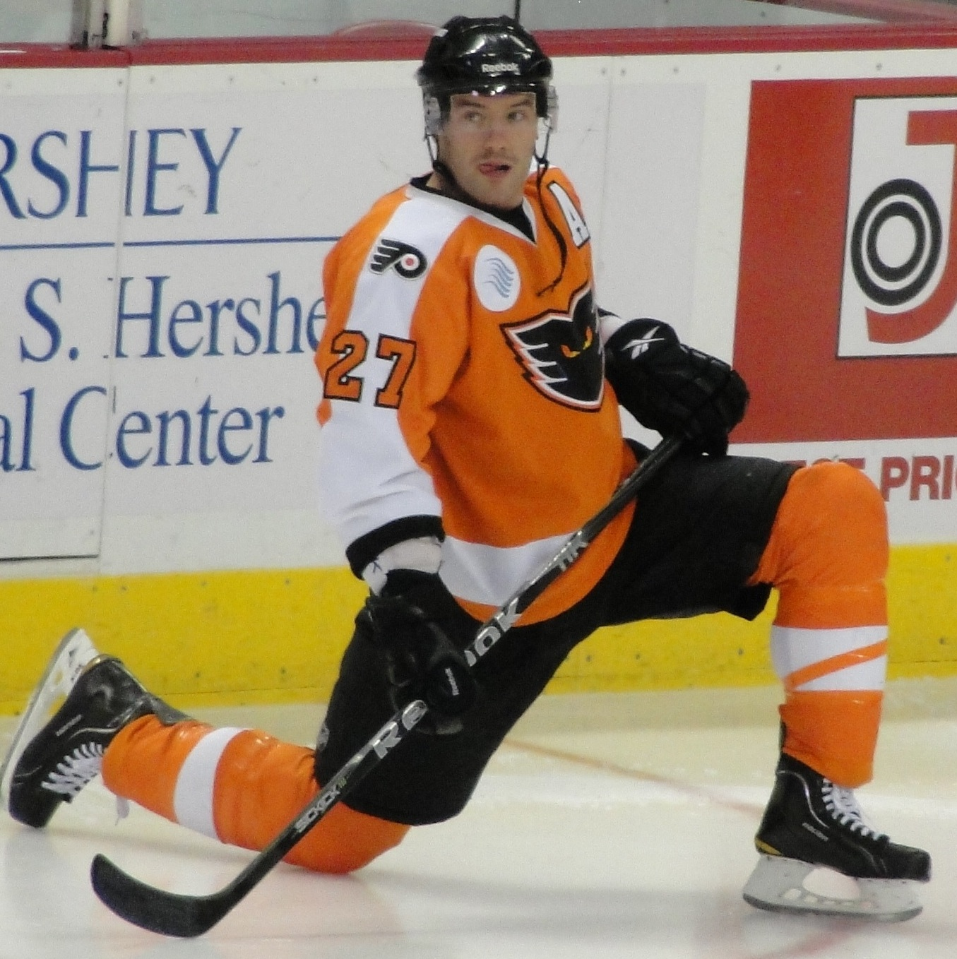 Photo of Greg Moore during warm-ups at Giant Center in Hershey PA